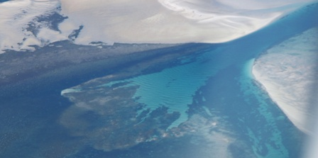 Paul Moss photo from Boeing Jumbo 747 first class window original image and exif data available from Paul Moss if anyone wants to see it...